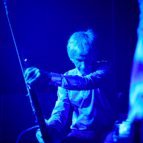 Robert Hampson playing guitar with Cindytalk at ancienne belgique 8.4.11